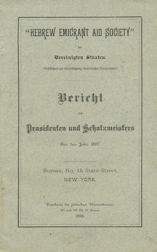 Hebrew Emigrant Aid Society – Report of President and Treasurer for the Year 1882. New York, 1883. German.